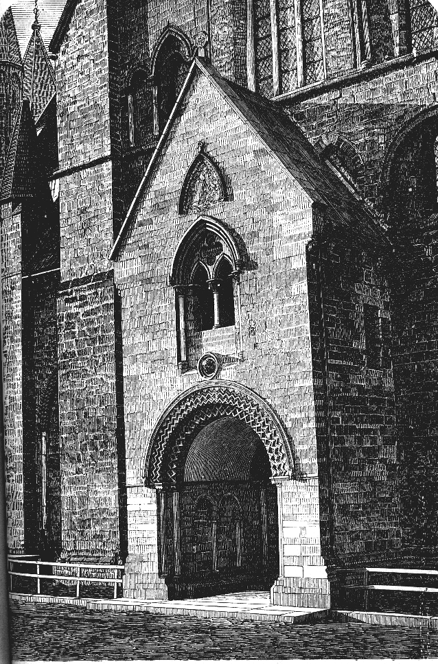 Northern Transept of Nidaros Cathedral, Trondheim, Norway. Xylograph by unknown artist, 1885.